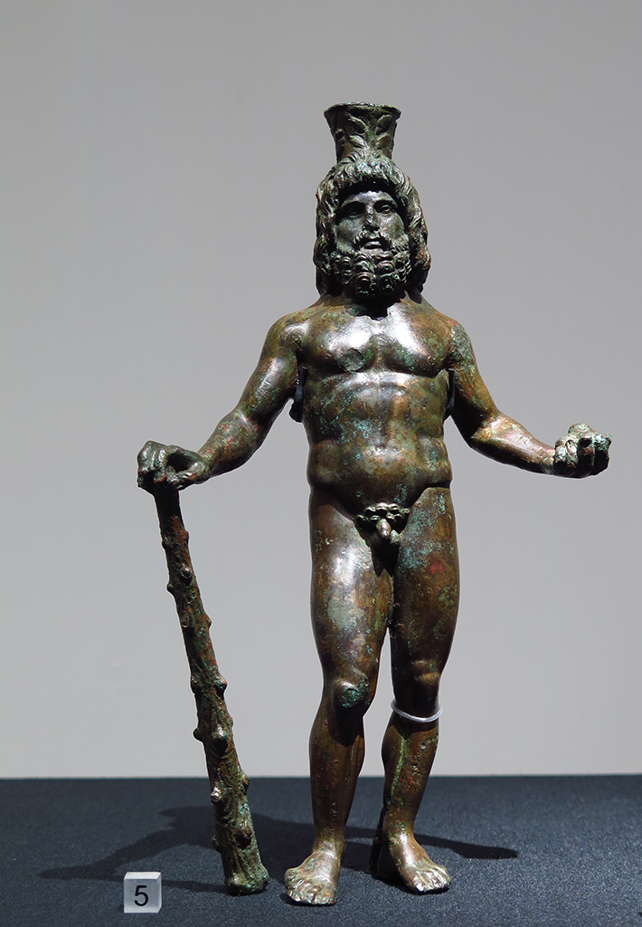 Statuette of Serapis from Begram. Musee Guimet. Personal photograph 2018.